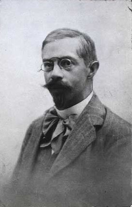 Jens Gustav Bang (1871-1915), Danish historian and politician, MP